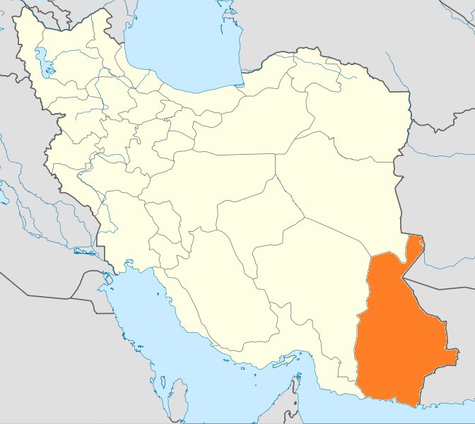 Locator map of the Sistan and Baluchestan Province, in Iran.